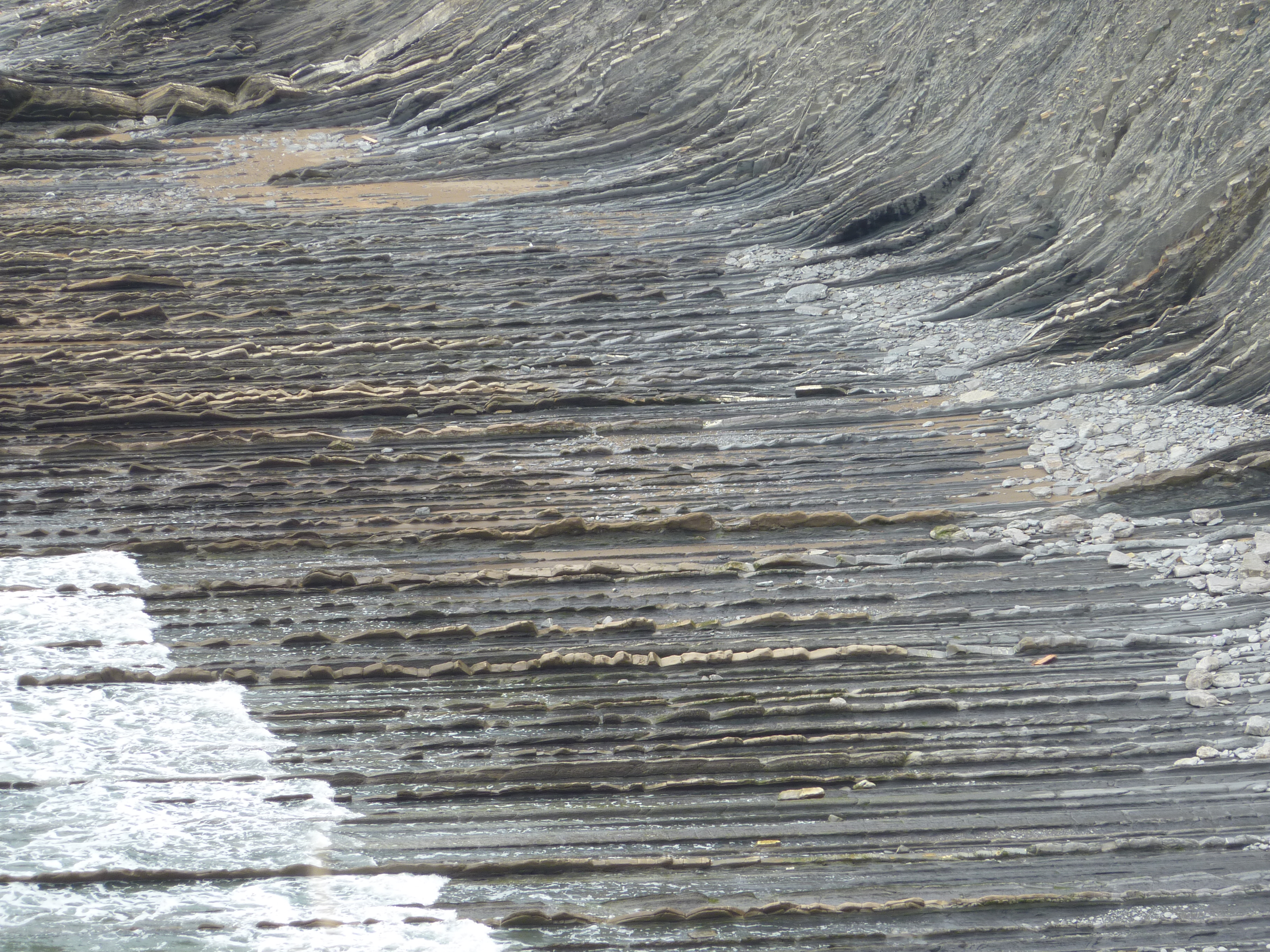 The flysch coastline at Sakoneta beach, between Deba and Zumaia, Gipuzkoa.